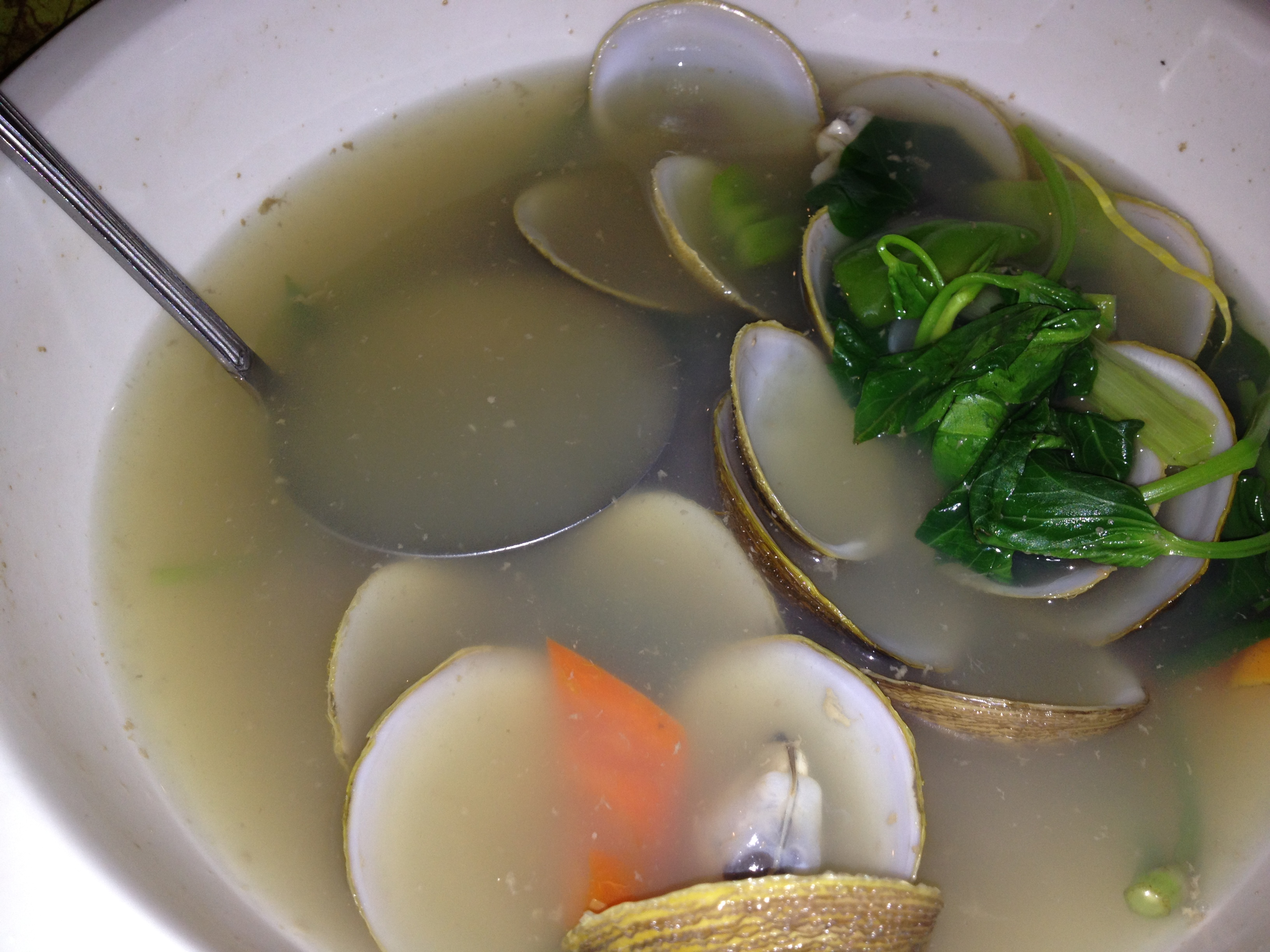 a common Philippine dish or Filipino food consisting of clams stewed with ginger and available greens